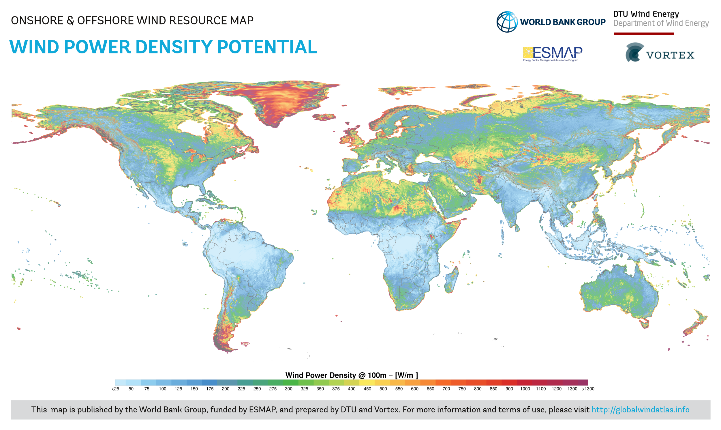 This wind resource map provides an estimated summary of mean wind power density at 100 m above surface level. Power density indicates wind power potential, part of which can be extracted by wind turbines. The map is derived from high-resolution wind speed distributions based on a chain of models, which downscales winds from global models (~70 km), to mesoscale (9 km) to microscale (150 m terrain). The output resolution is 1 km.